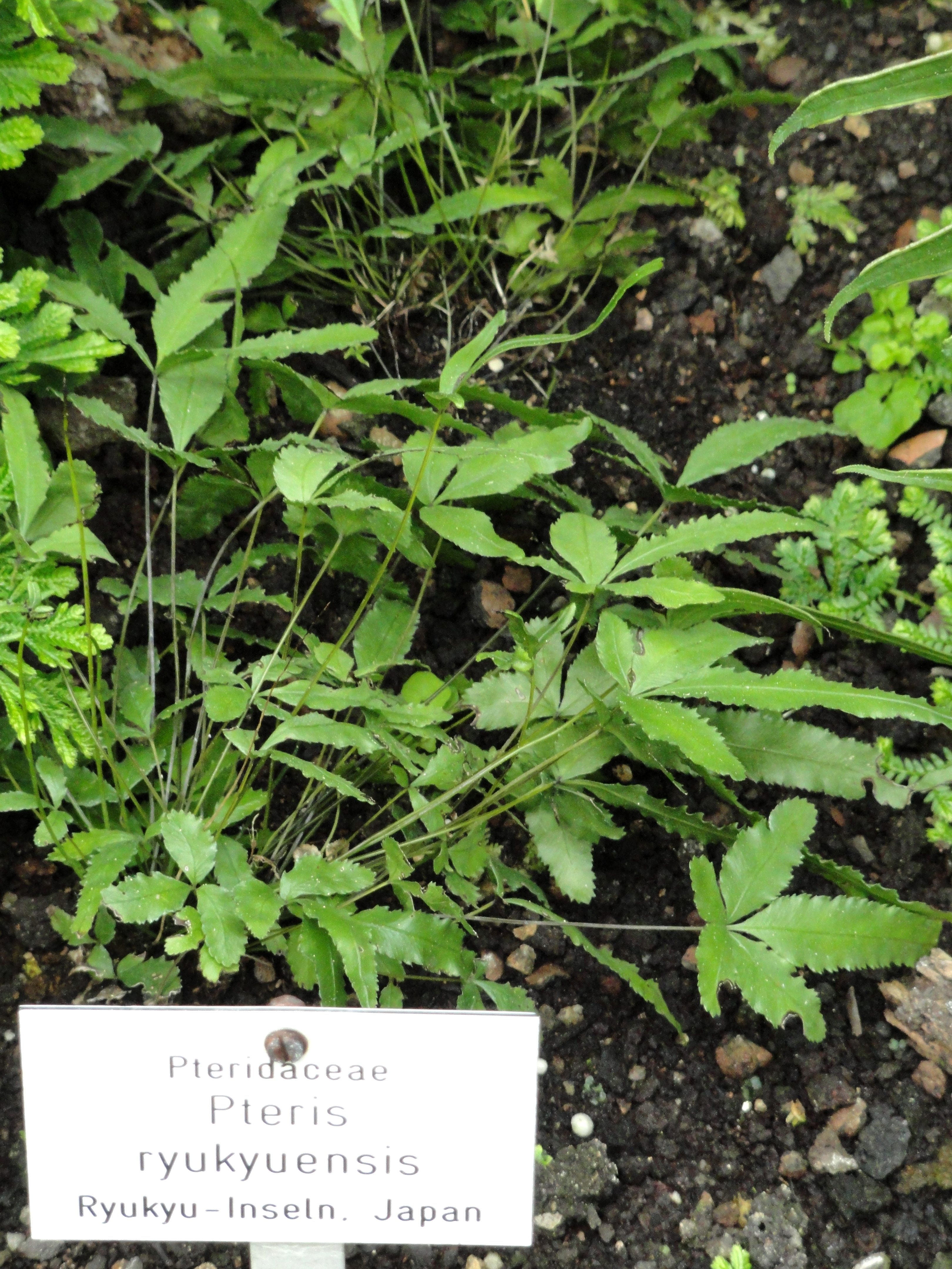 Pteris ryukyuensis specimen in the Botanischer Garten Freiburg, Freiburg im Breisgau, Baden-Württemberg, Germany.